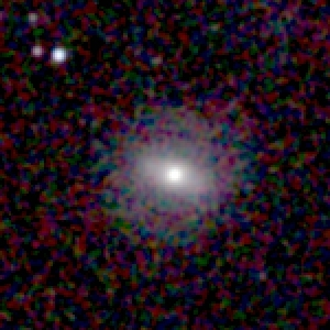 Galaxy NGC 441